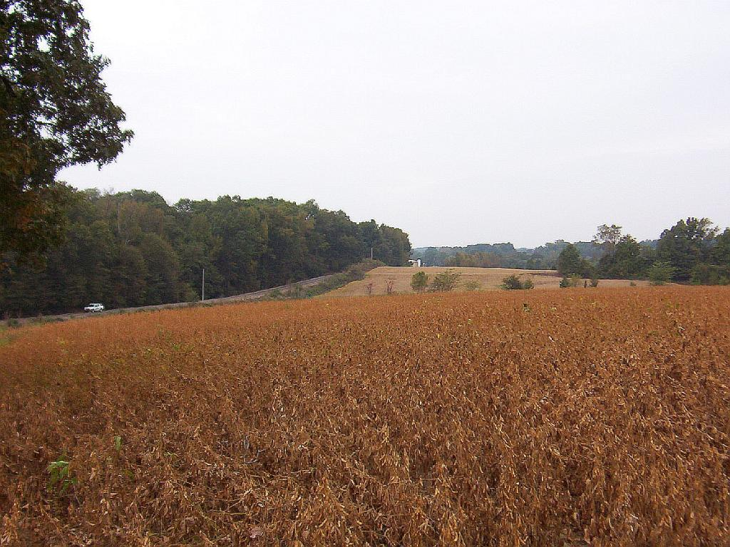 Photo of a scenic view on State Highway 19 in Nutbush, Tennessee, USA.